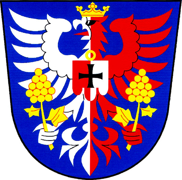 Municipal coat of arms of Uhřice village, Hodonín District, Czech Republic.